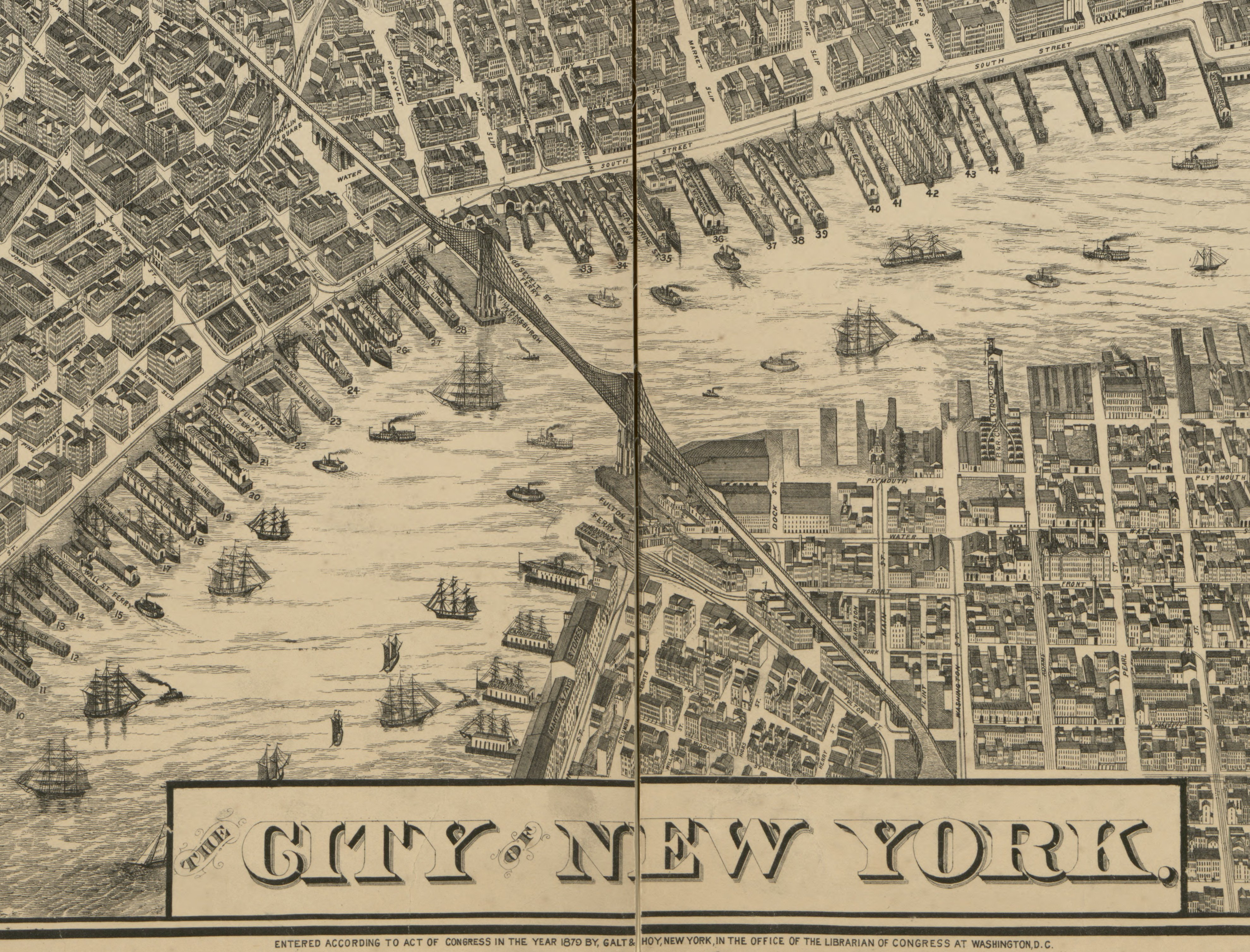 Detail from